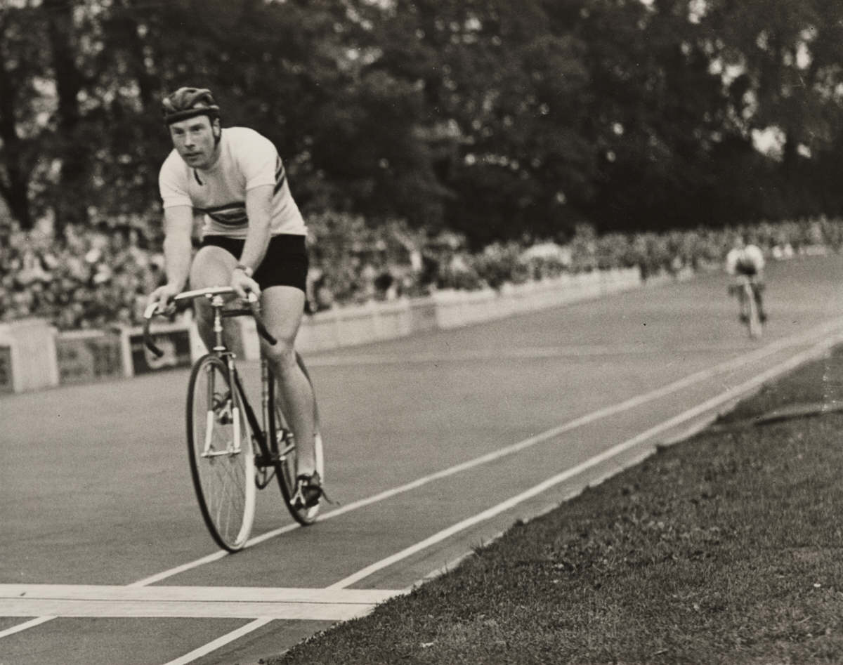 Reg Harris (1920-1992) was a cyclist from Lancashire. He joined the 10th Hussars in World War II and was a tank driver in the North Africa campaign before being wounded and invalided out of the services. Despite his discharge he went on to win the World Amateur Sprint in Paris in 1947 and won Olympic Sprint silver and Olympic Tandem Sprint silver in 1948. Daily Herald Archive at the National Media Museum We're happy for you to share this digital image within the spirit of The Commons. Certain restrictions on high quality reproductions of the original physical version of apply though; if you're unsure please visit the National Media Museum website. For obtaining reproductions of selected images please go to the Science and Society Picture Library.